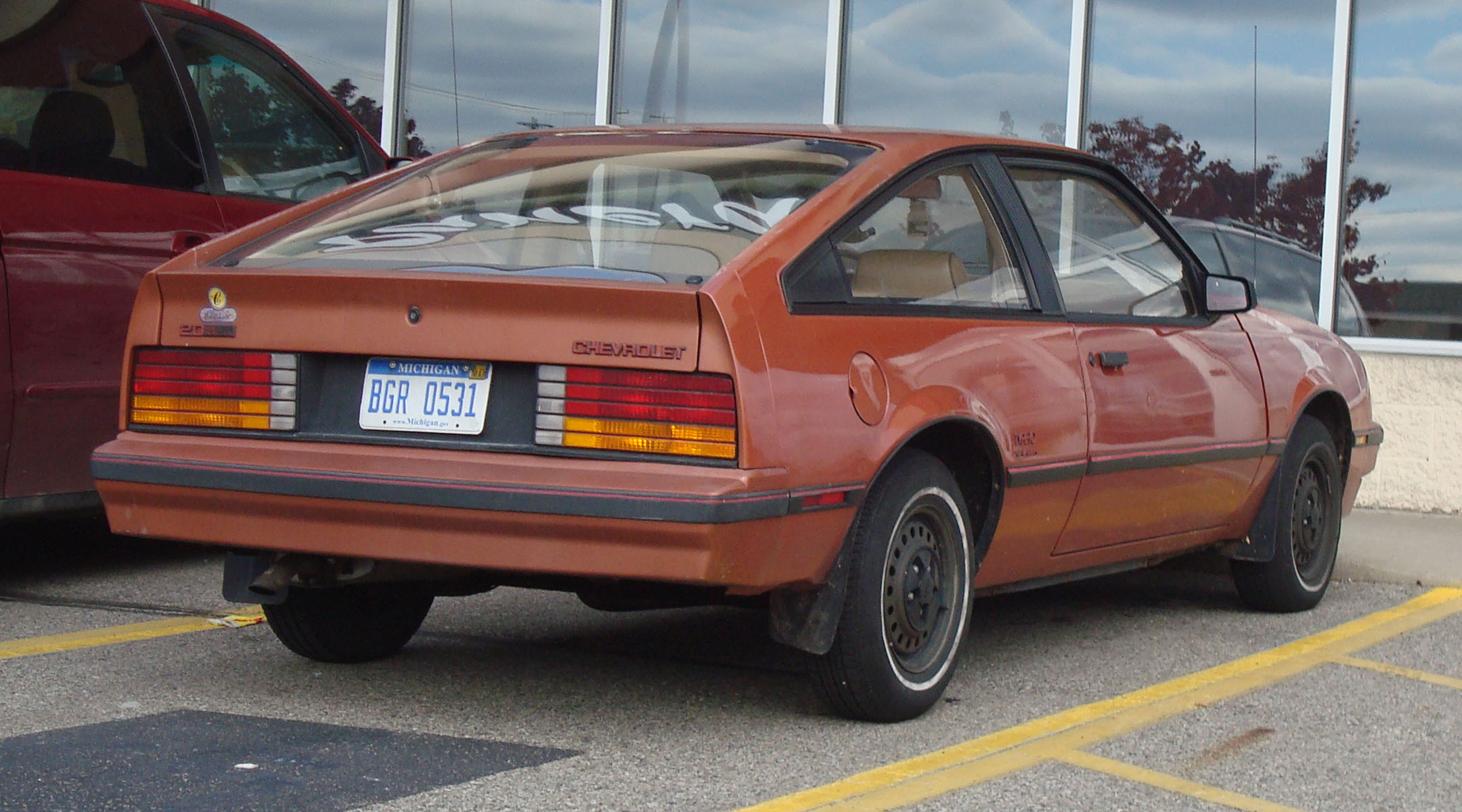 1984-85 Chevrolet Cavalier Type 10 hatchback photographed in Lansing, Michigan.